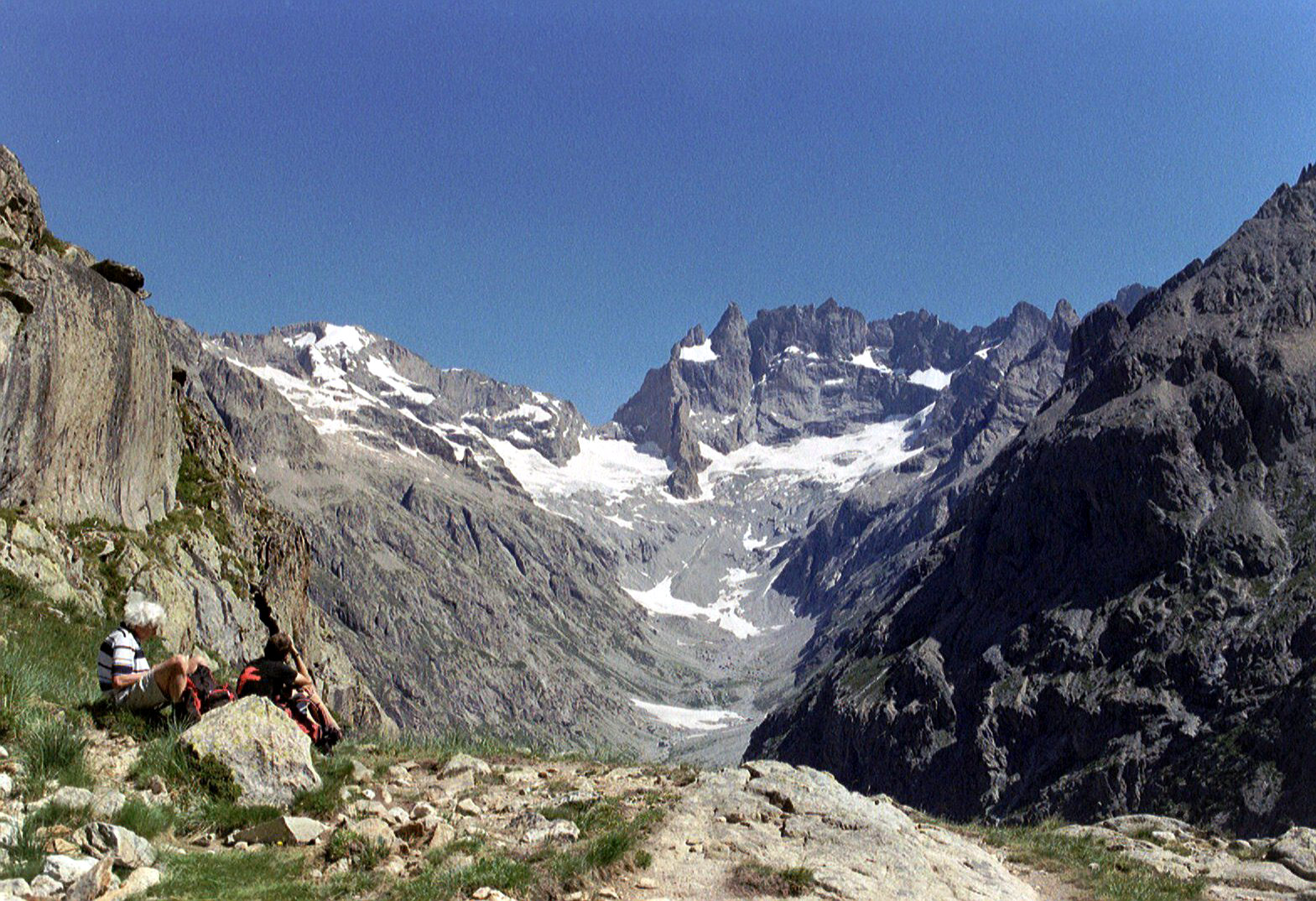 Tete de la Maye, French Alps